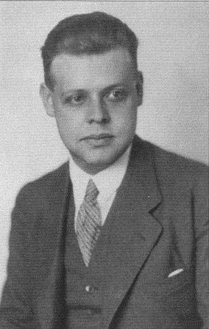 Viktor KAUFMANN (* 1900-1945), a physician, a leading personality of the anti-Nazi resistance organization "Committee on Petitions Faithful Forever" (operating in the territory of the Protectorate of Bohemia and Moravia in the years 1939-1942), was arrested by the Gestapo and executed in Brandenburg.